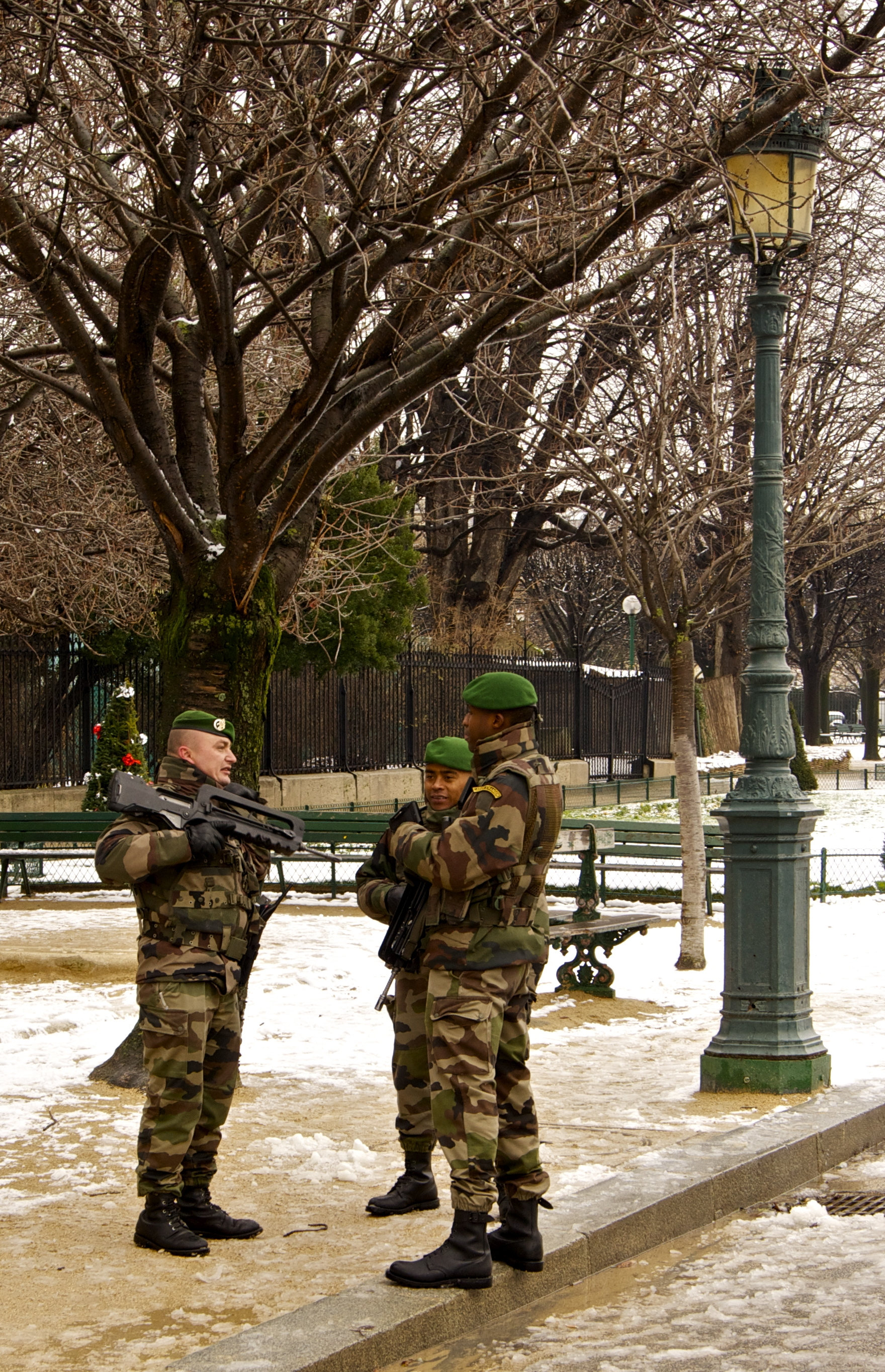 "Operation Vigipirate". Patrol of paratroopers of the French Foreign Legion, around Notre-Dame de Paris Note: The capbadge of the soldier on the left is not the paratrooper capbadge.